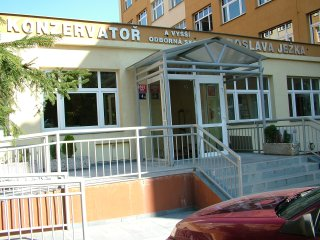 Jaroslav Ježek Conservatory in Prague-Braník, main entrance to the school.